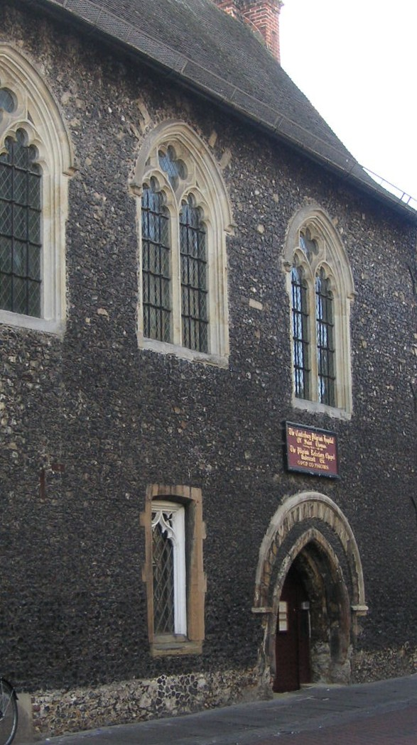 Canterbury England. The circular arch over the door suggests that the origins of the building are Norman, but much of the structure including the present doorway and upper windows are from 1290-1320. The small lower window has somewhat later tracery. The building still functions as a hospice for the elderly. The upper windows give light into the chapel. The glass appears to be all restoration.